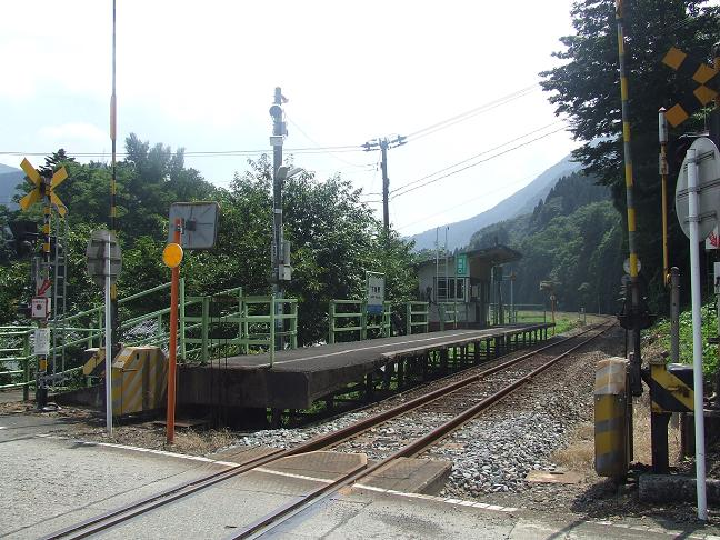 Shimo-Yuino Station on Etsumi-Hoku Line